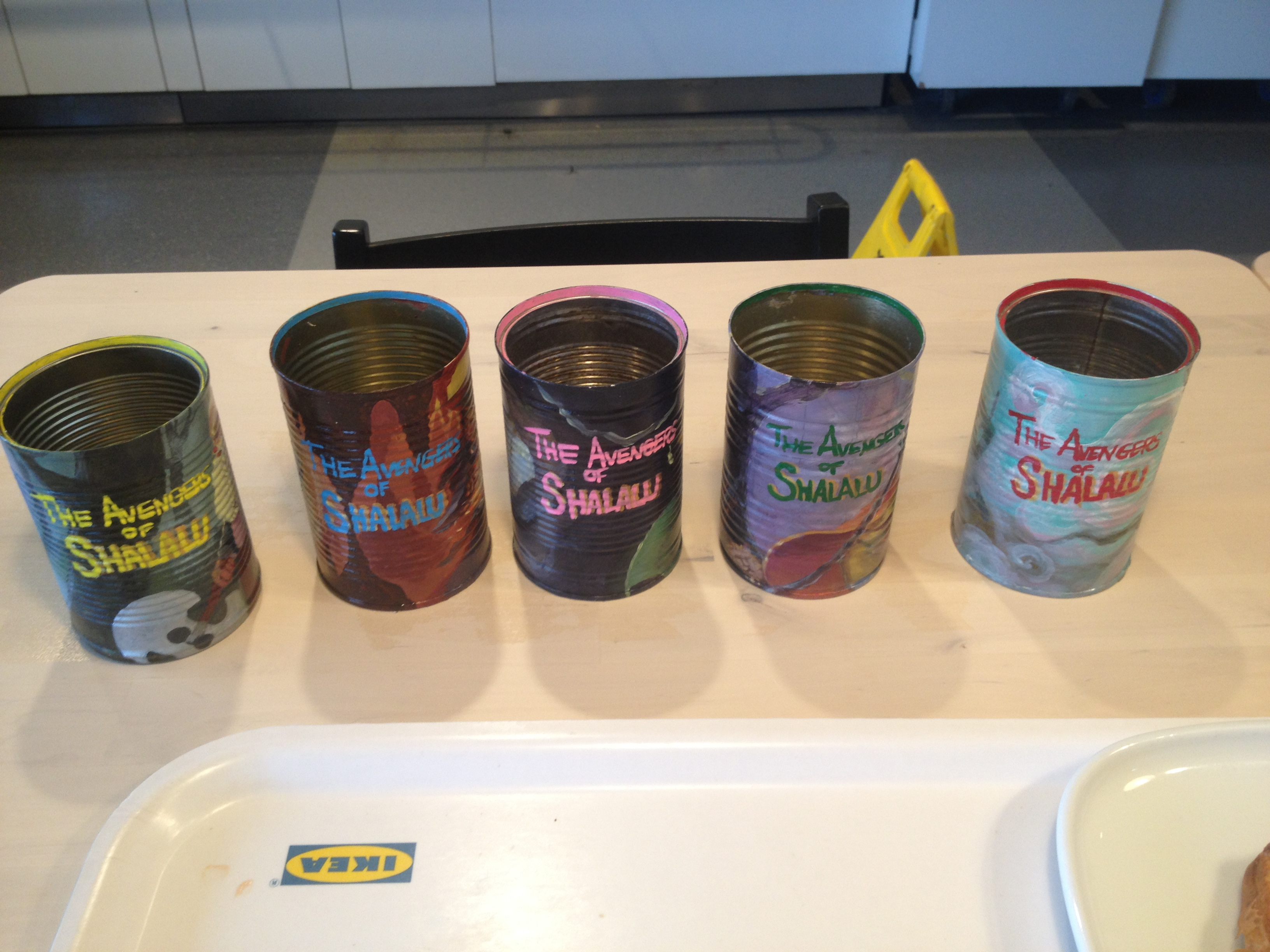 Re-used tin cans- painted in acrylic paints and used ornamentally and for storage of small items